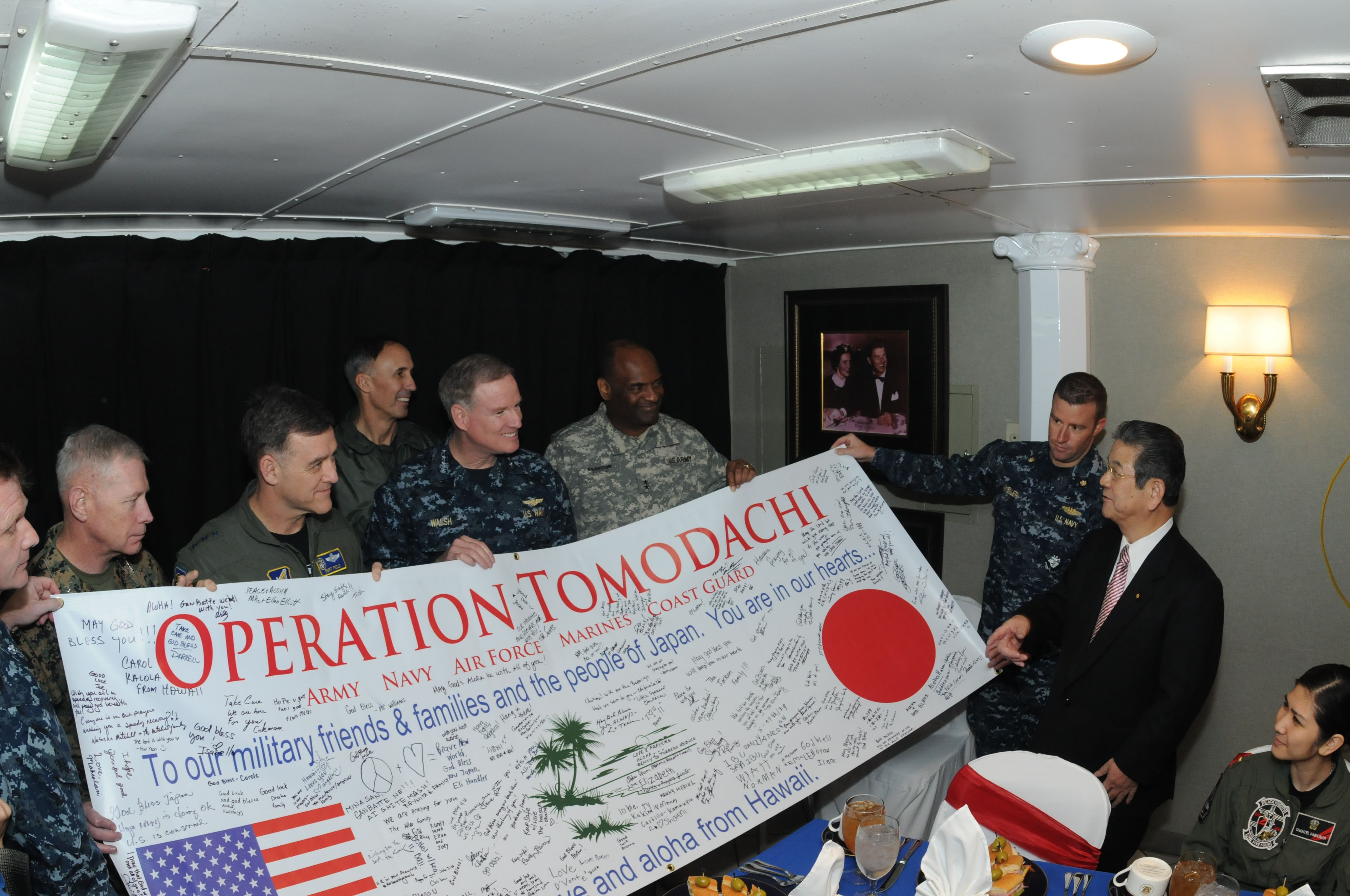 PACIFIC OCEAN (April 4, 2011) Senior U.S. Navy, Marine Corps, and Army military service members present Japan Defense Minister Toshimi Kitazawa an Operation Tomodachi banner in a wardroom aboard the aircraft carrier USS Ronald Reagan (CVN 76). Senior U.S. and Japan leaders visited Ronald Reagan to thank Ronald Reagan Sailors for relief efforts during Operation Tomodachi. Ronald Reagan is off the coast of Japan providing humanitarian assistance and disaster relief to Japan as directed in support of Operation Tomodachi. (U.S. Navy photo by Mass Communication Specialist 3rd Class Kyle Carlstrom/Released)